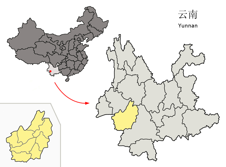 Location of Lincang Prefecture (yellow) within Yunnan province of China Map drawn in september 2007 using various sources, mainly : Yunnan province administrative regions GIS data: 1:1M, County level, 1990 Yunnan Counties map from